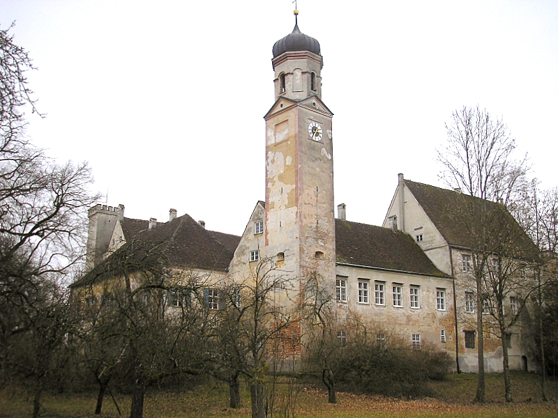 Hofhegnenberg Castle near Mering (Steindorf, Landkreis Aichach-Friedberg, Bavaria, Germany). View from north east. Own photo, Jan. 2008.